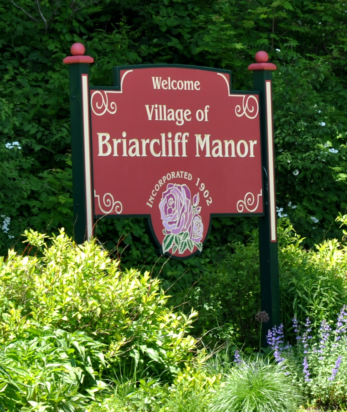 A Briarcliff Manor village sign, at the bend of Pleasantville Road by Briarcliff Congregational Church and Law Park.